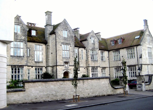 Old Dorset County Hospital, Dorchester In Somerleigh Road off Princes Street, the old county hospital designed by Benjamin Ferrey FSA and built in Portland stone in 1841, has now been converted into flats which are very convenient being so near to the centre of town. Benjamin Ferrey (1810-1880) studied under Pugin and became Diocesan Architect to Bath and Wells. He was also commissioned in 1836 to design the area in Bournemouth known as Westover, including the Bath Hotel.